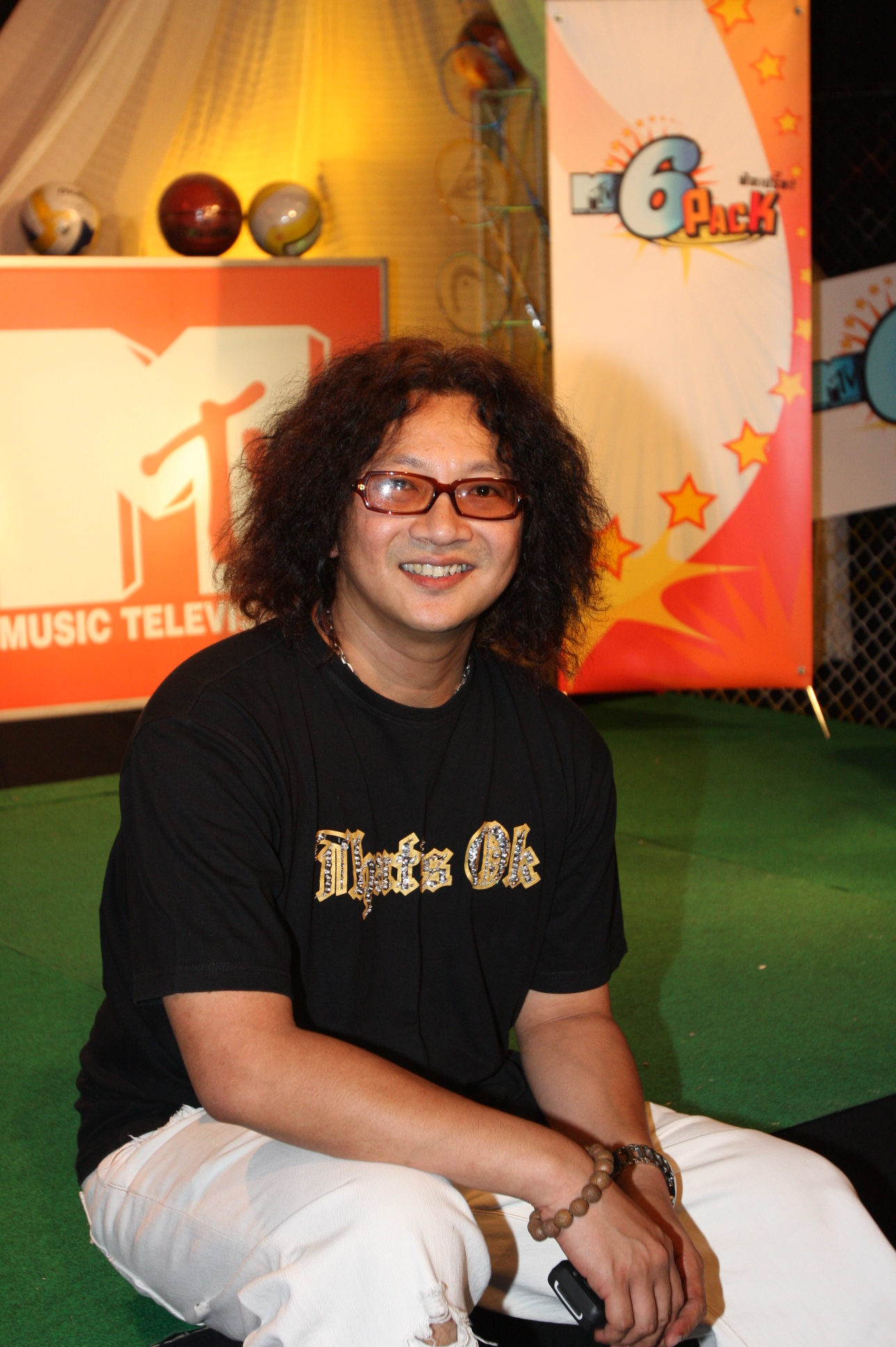 Ford Sobchai at MTV Thailand 6th Anniversary